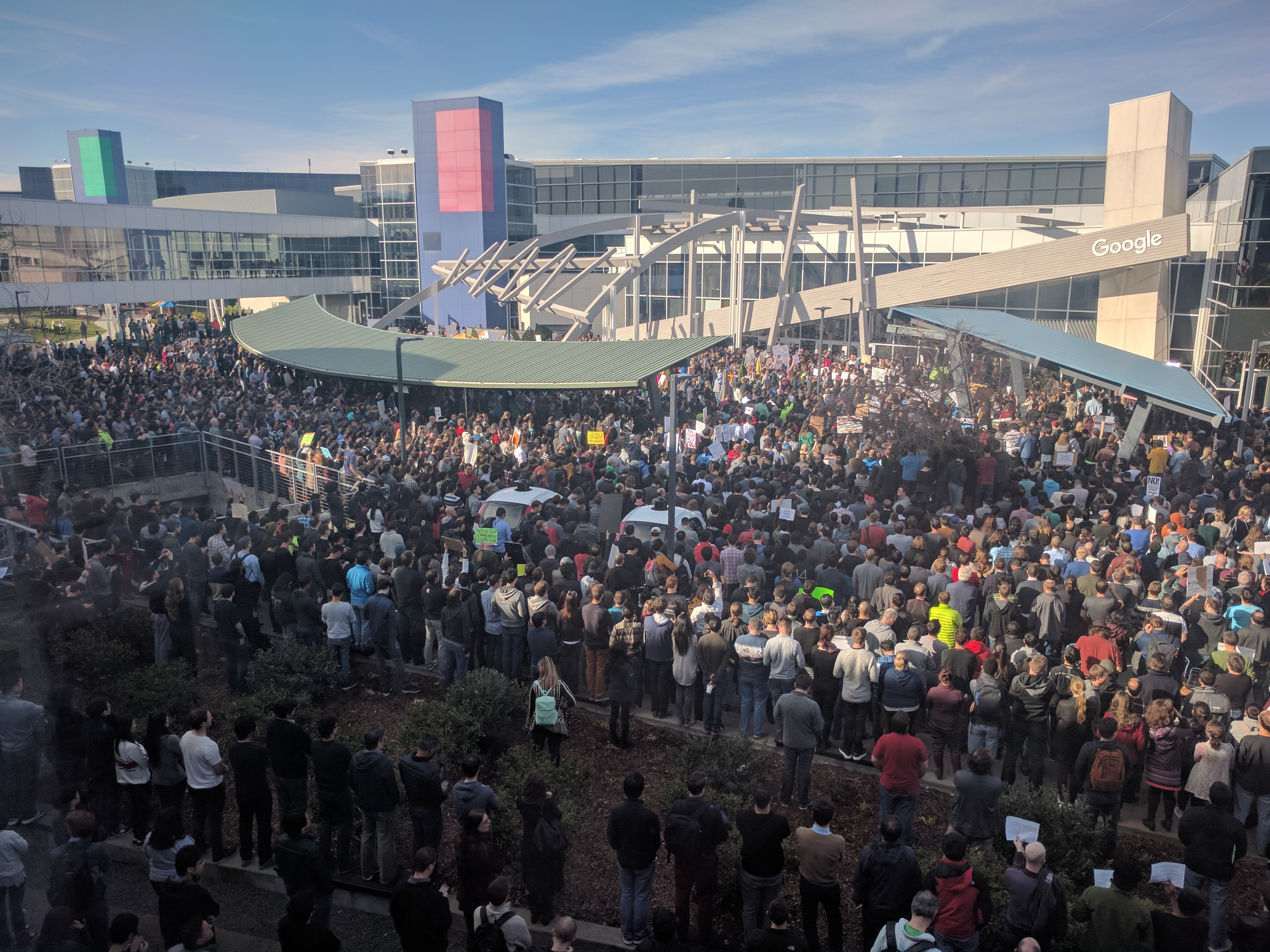 A protest at the Googleplex in Mountain View against the 2017 executive order on immigration.